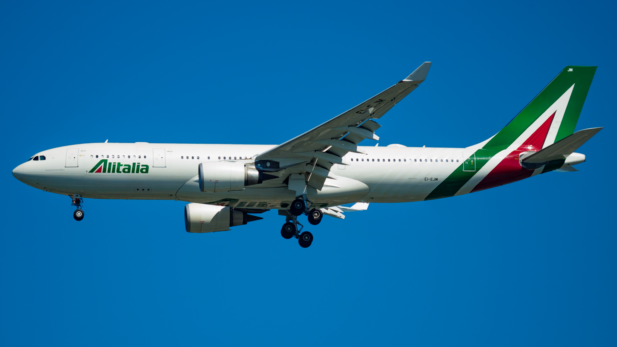 Spotting near JFK